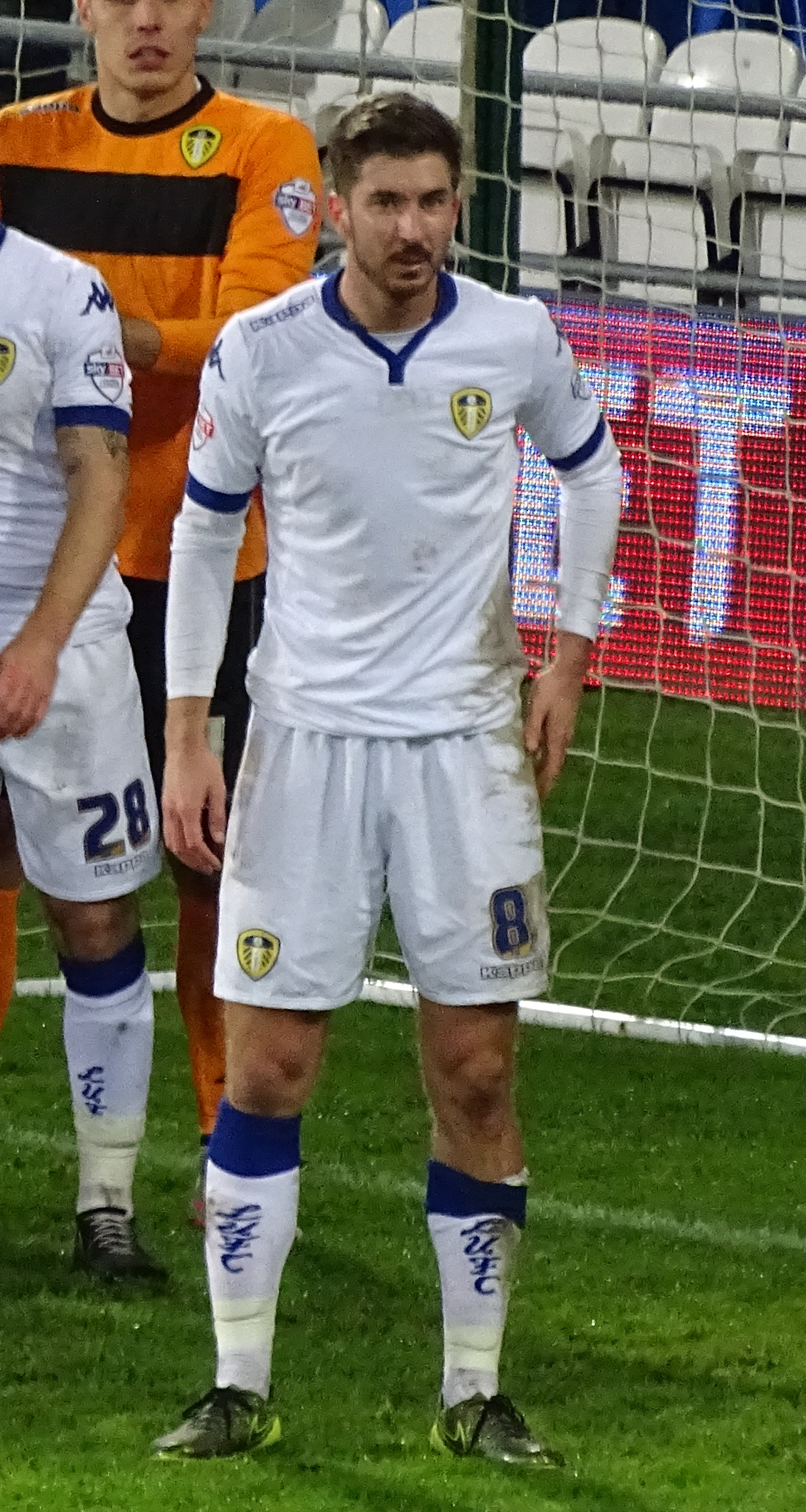 Footballer Luke Murphy playing for Leeds United.